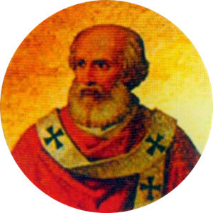 Portait of Pope Nicholas III in the Basilica of Saint Paul Outside the Walls, Rome